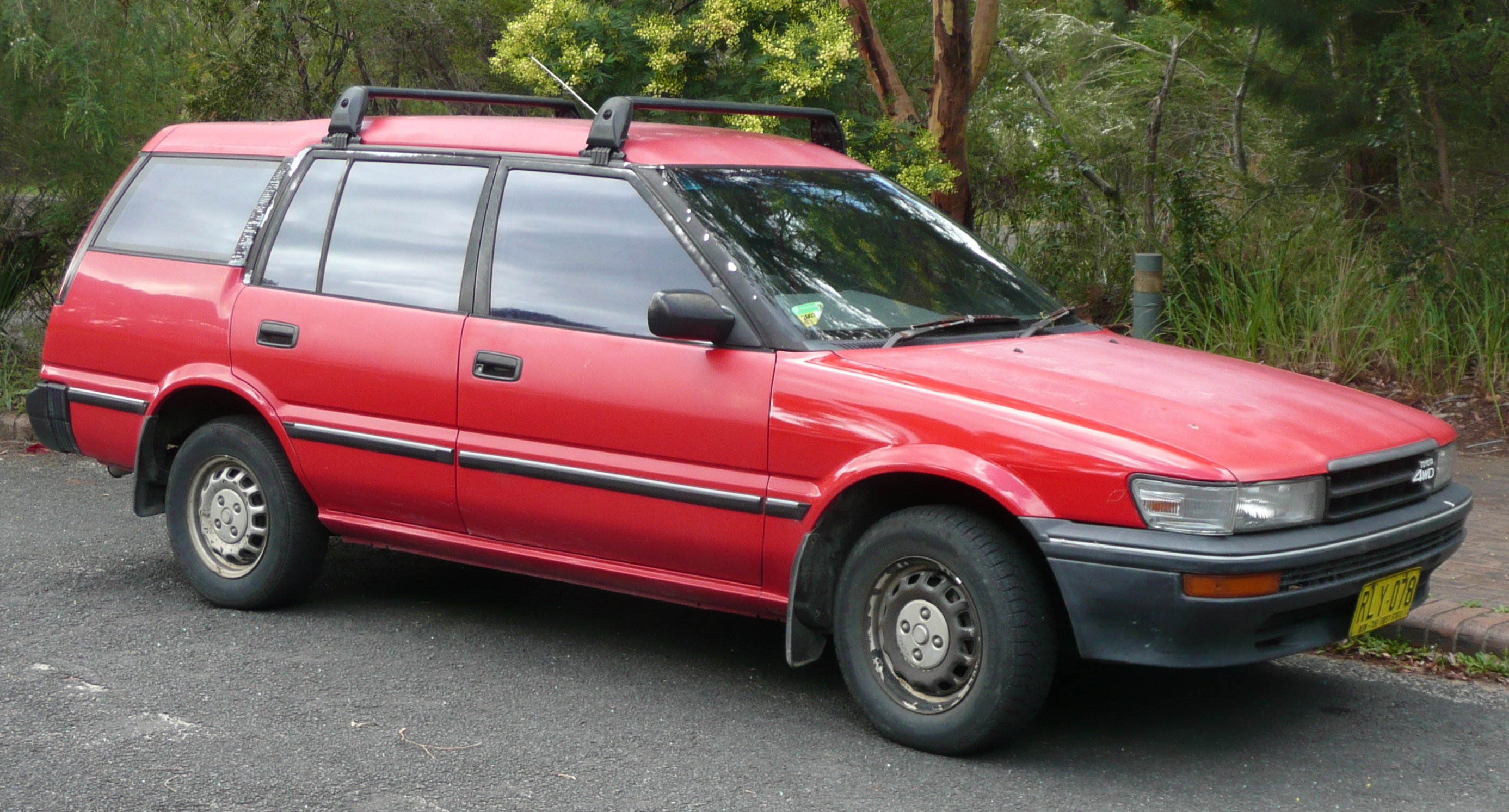 1990 Toyota Corolla (AE95R) XL station wagon. Photographed in Audley, New South Wales, Australia.